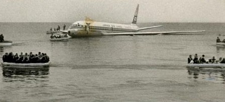 Japan Airlines Flight 2 in the water just short of San Francisco International Airport runway.